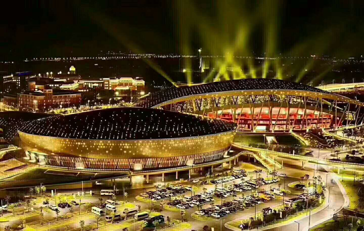 Zhaoqing, Guangdong, China